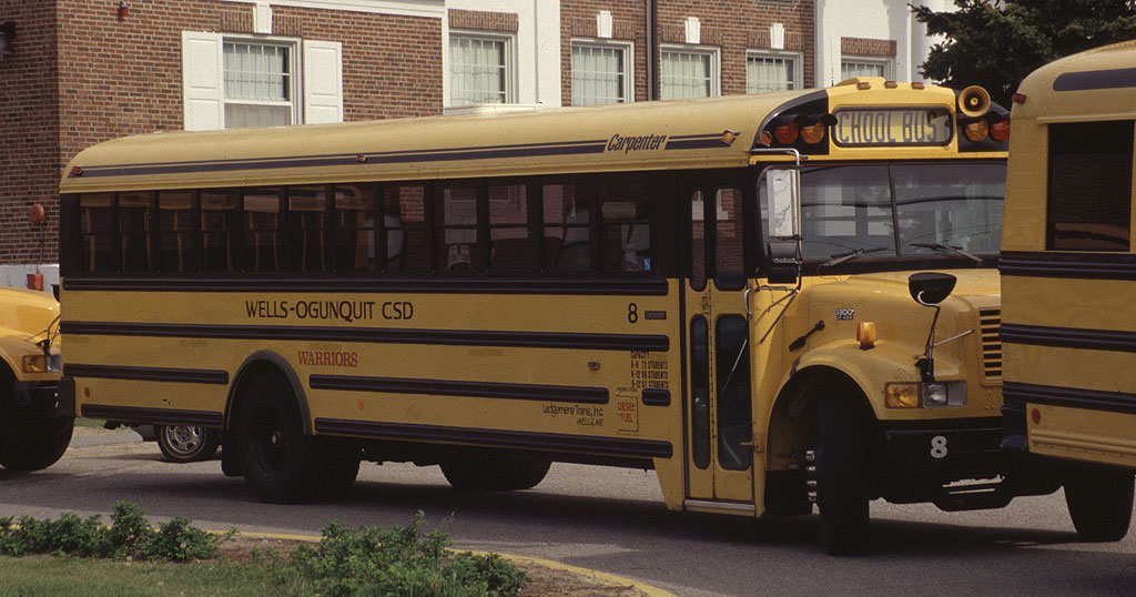 A Carpenter conventional-style school bus, owned by Ledgemere Transportation and operated on behalf of the Wells-Ogunquit Community School District in Wells.